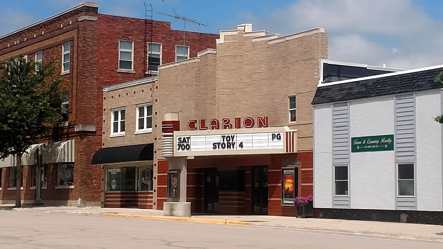 Clarion movie theater in downtown Clarion, Iowa